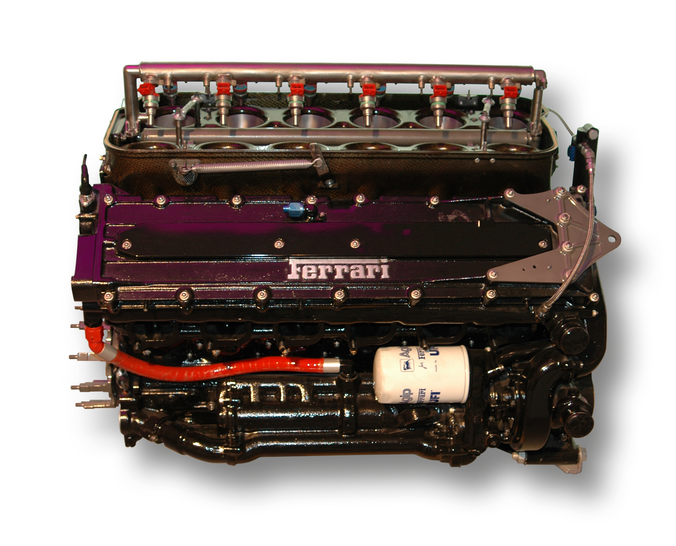 1993 Ferrari 041 engine